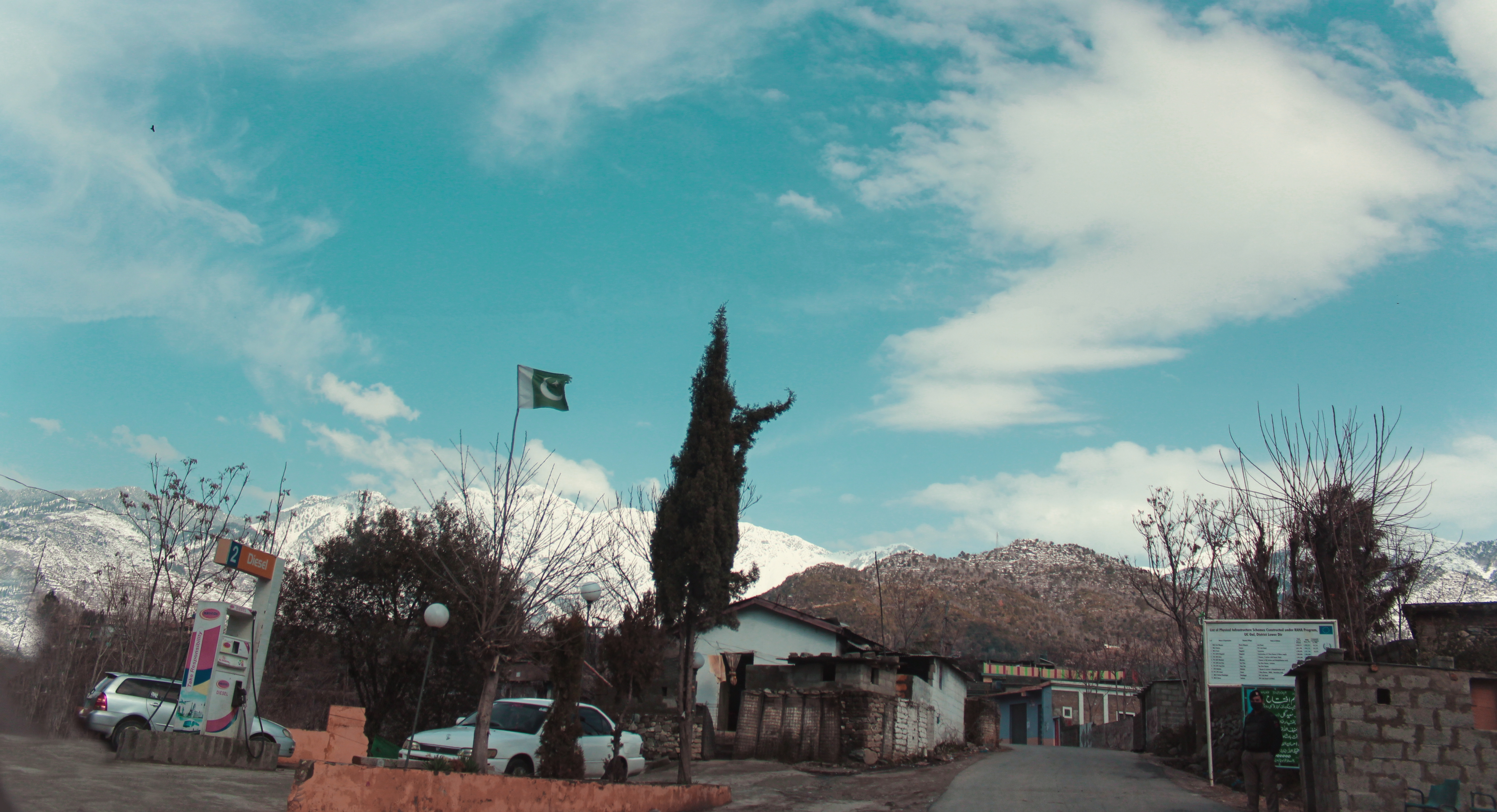 One of the best green place of dir lower kpk